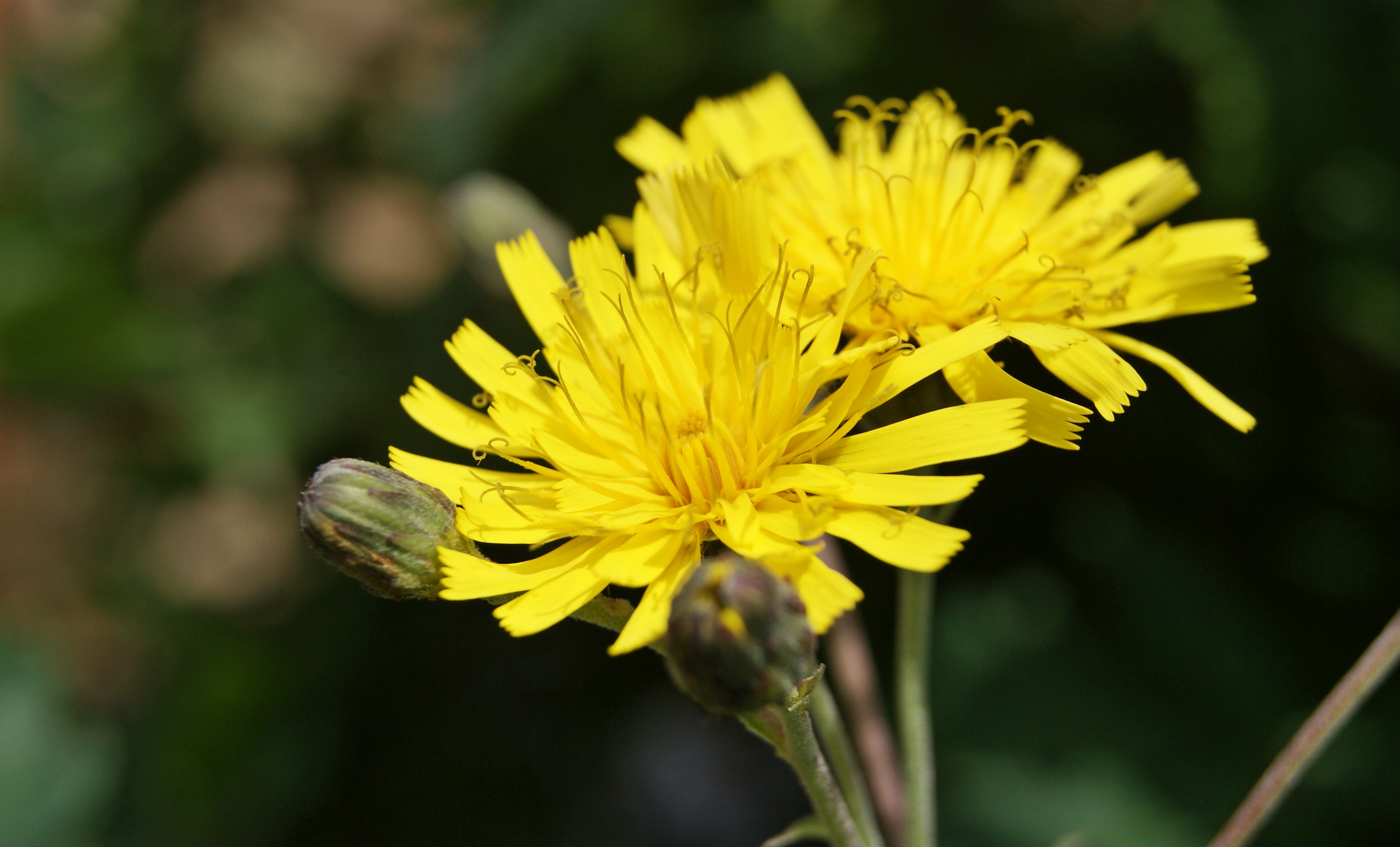 Hieracium sabaudum, Germany.